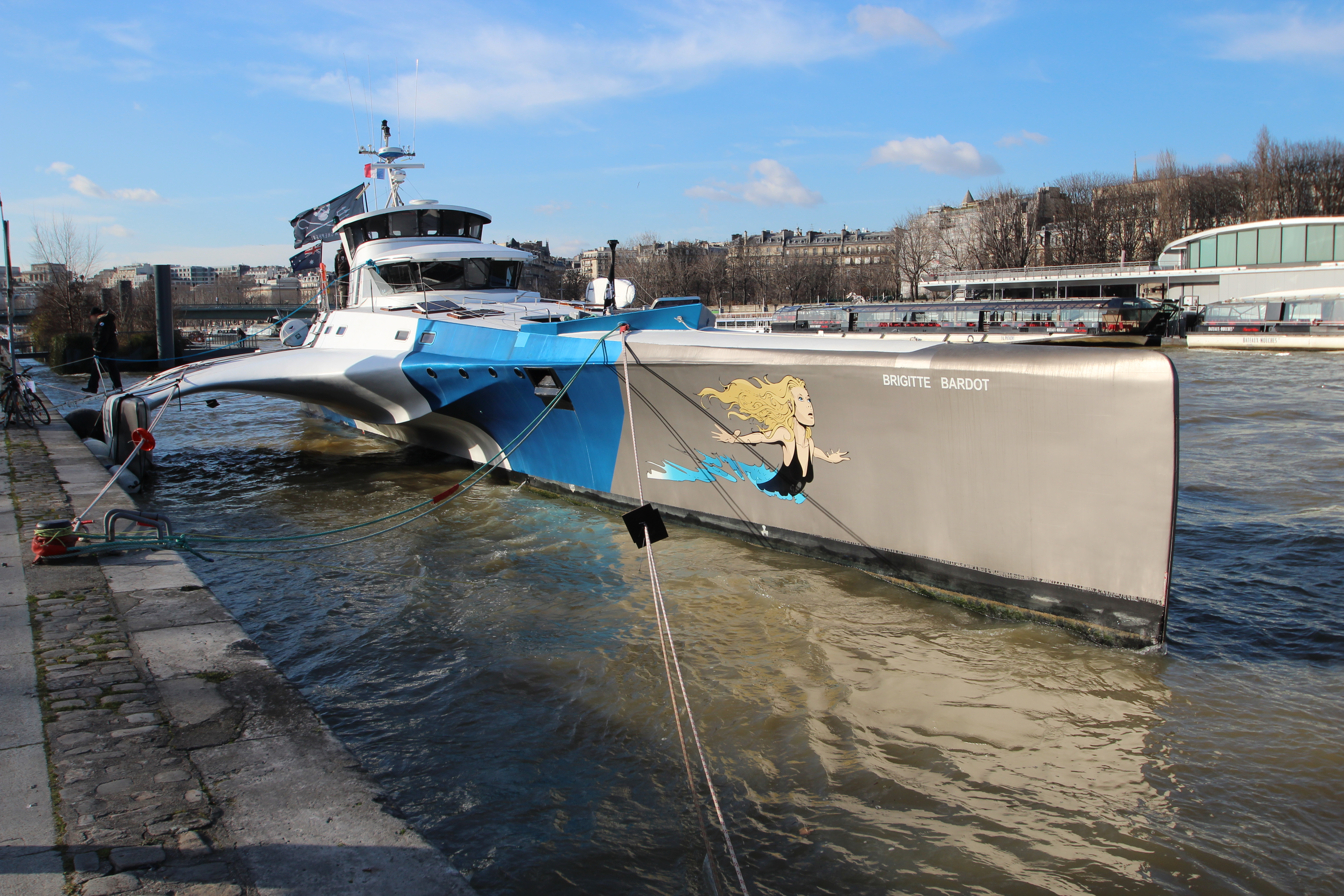 Sea Shepherd boat Brigitte Bardot February the 4th 2015 in Paris, France.